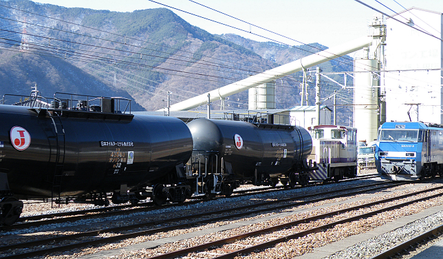 Oil freight cars coached by 25 t switcher of JRF Shinshu Logistics at Nishi-Ueda Station in Nagano, Japan